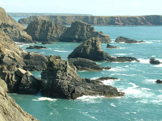 Rugged Coast. Western edge of this square where ribbons of rock plunge into the sea.